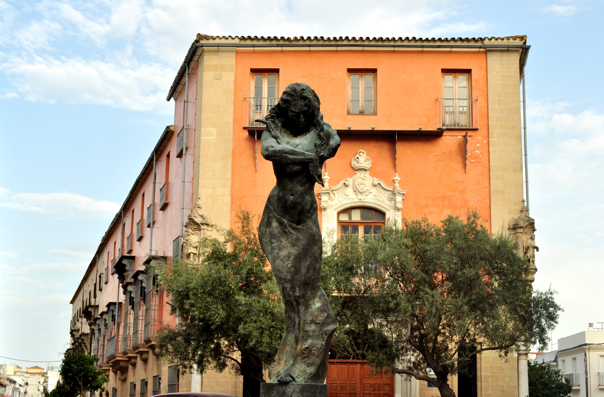 Villapanes Palace with monument to Lola Flores